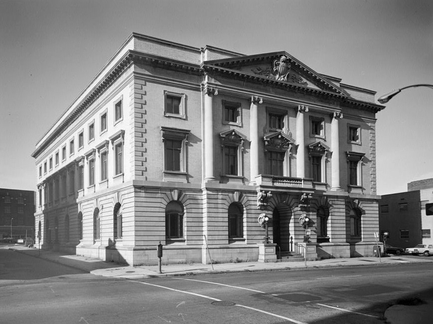 U.S. Post Office & Federal Courts Building, 235 East Plume Street (Norfolk city, Virginia) Now commercial building cropped HABS VA,65-NORF,11-1 This file comes from the Historic American Buildings Survey (HABS), Historic American Engineering Record (HAER) or Historic American Landscapes Survey (HALS). These are programs of the National Park Service established for the purpose of documenting historic places. Records consist of measured drawings, archival photographs, and written reports. When reusing please credit: Library of Congress, Prints & Photographs Division, VA-37 This tag does not indicate the copyright status of the attached work. A normal copyright tag is still required. See Commons:Licensing for more information. This work is in the public domain in the United States because it is a work prepared by an officer or employee of the United States Government as part of that person’s official duties under the terms of Title 17, Chapter 1, Section 105 of the US Code. Note: This only applies to original works of the Federal Government and not to the work of any individual U.S. state, territory, commonwealth, county, municipality, or any other subdivision. This template also does not apply to postage stamp designs published by the United States Postal Service since 1978. (See § 313.6(C)(1) of Compendium of U.S. Copyright Office Practices). It also does not apply to certain US coins; see The US Mint Terms of Use. This file has been identified as being free of known restrictions under copyright law, including all related and neighboring rights.